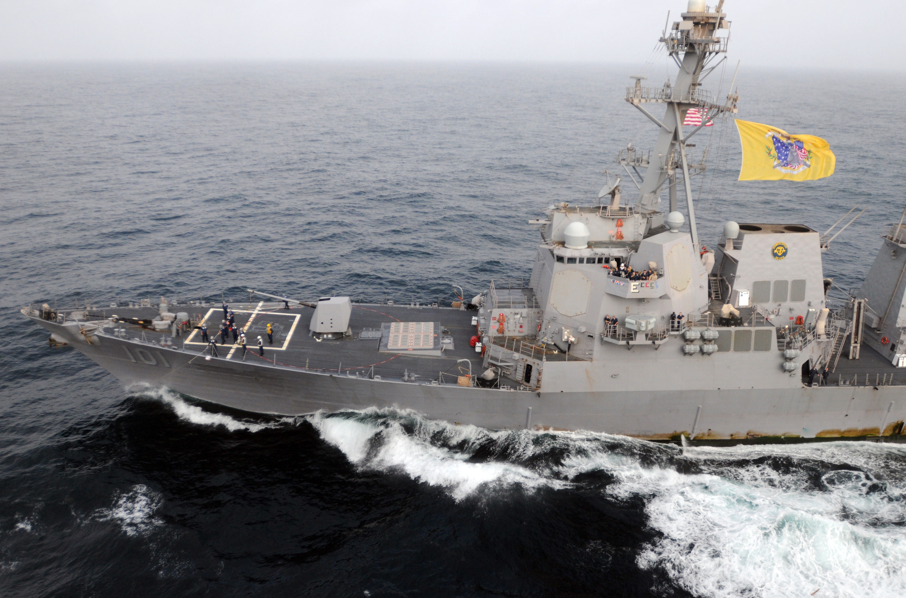 GULF OF OMAN (Sept. 6, 2009) The Arleigh Burke-class guided-missile destroyer USS Gridley (DDG 101) transits alongside the aircraft carrier USS Ronald Reagan (CVN 76) during a fueling at sea, an evolution used in routine and emergency situations to fuel ships in the strike group. The Ronald Reagan Carrier Strike Group is deployed to the U.S. 5th Fleet area of responsibility. (U.S. Navy photo by Mass Communication Specialist 3rd Class Chelsea Kennedy/Released)